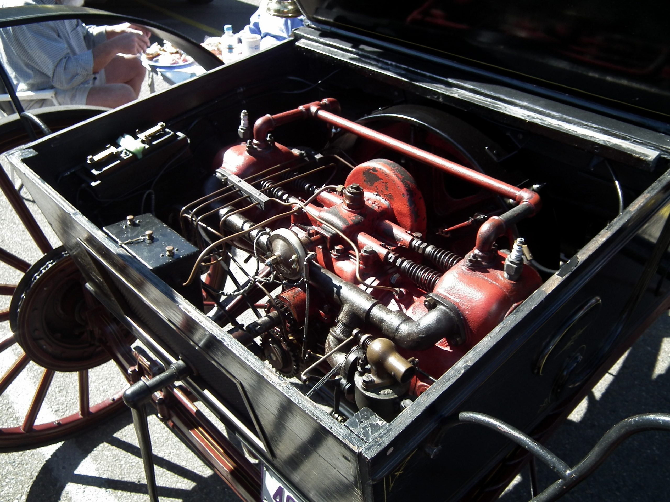 1908 Schacht Model K runabout engine. Taken at the 2013 Shannon's Eastern Creek Classic display day, held at Sydney Motorsport Park.